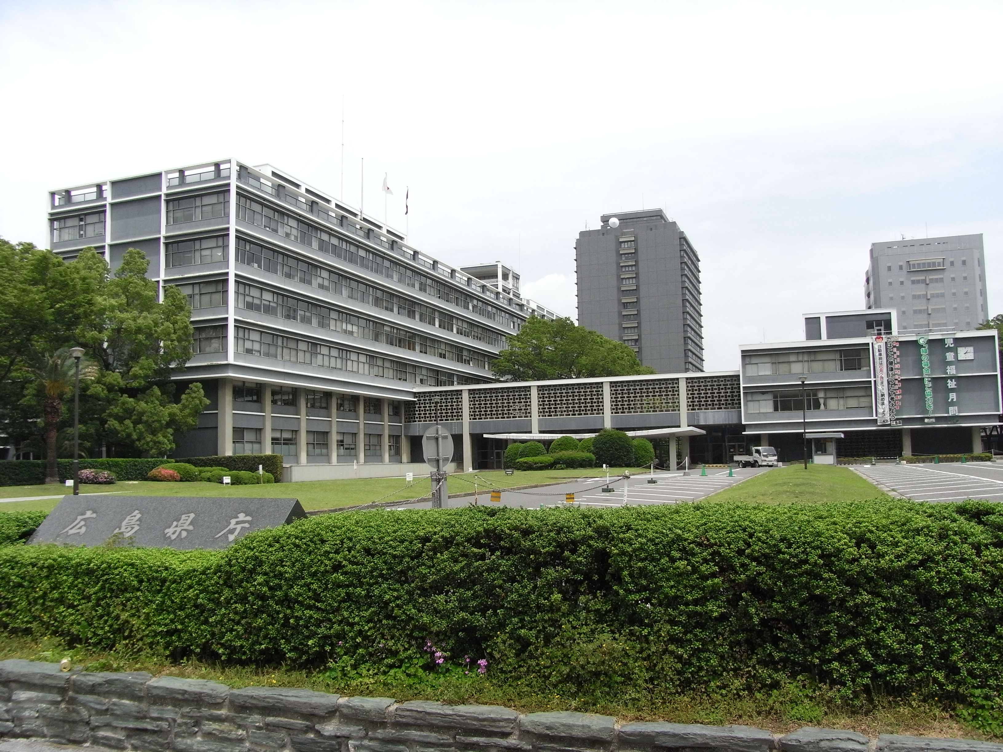 Hiroshima-Pref-Main-Office(広島県庁)